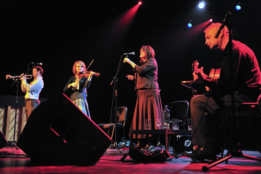 Fernhill performing Welsh folk music in Holland